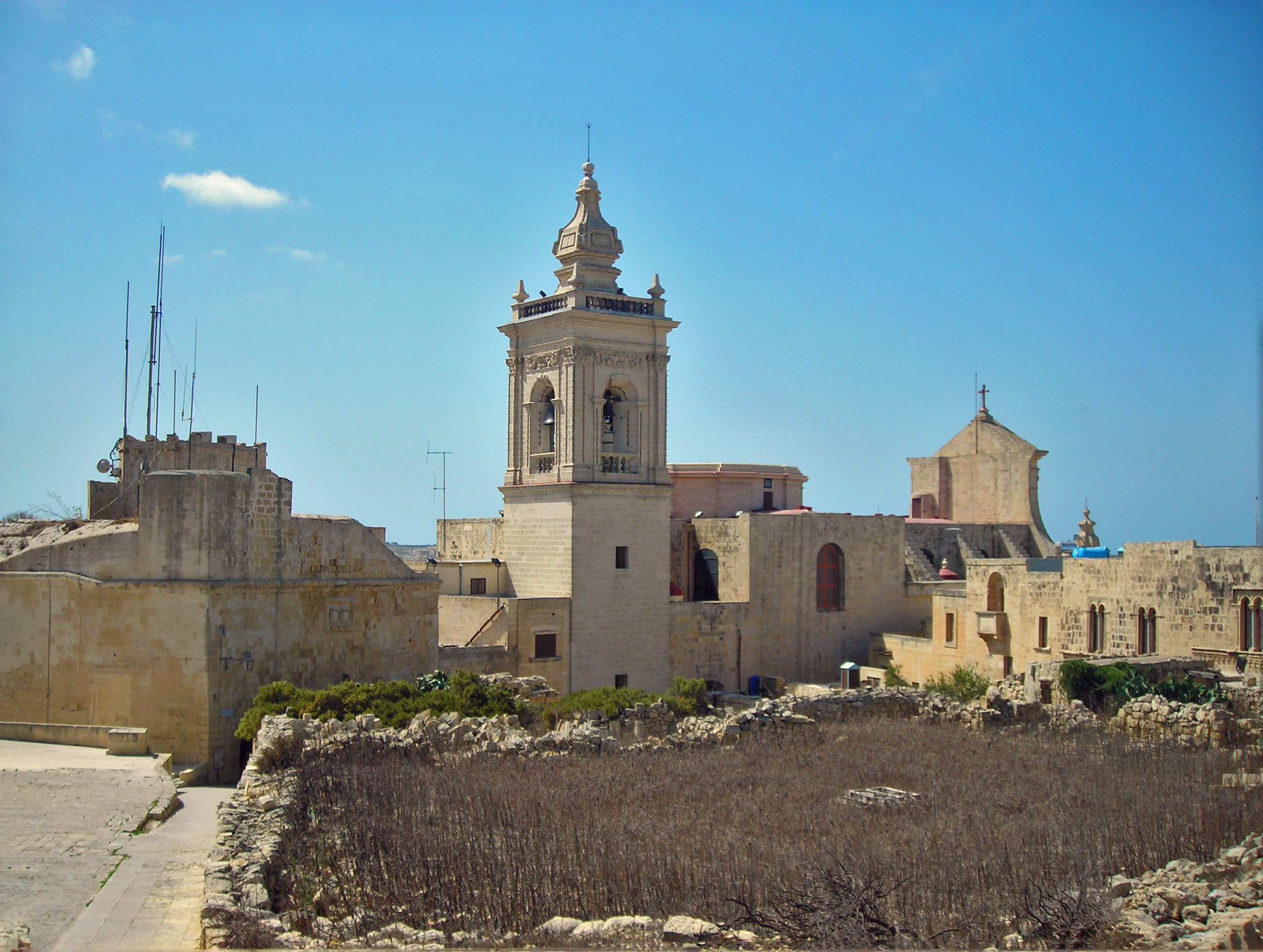 The Gozo Cathedral seen from the Citadel in Victoria, Malta.